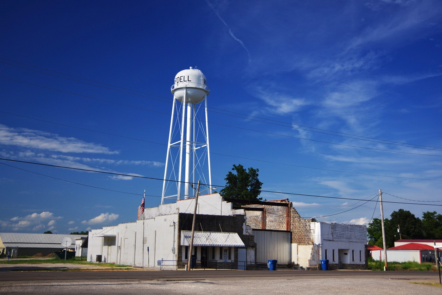 Buildings along Broad Street (County Road A) in Wardell, Missouri, United States.